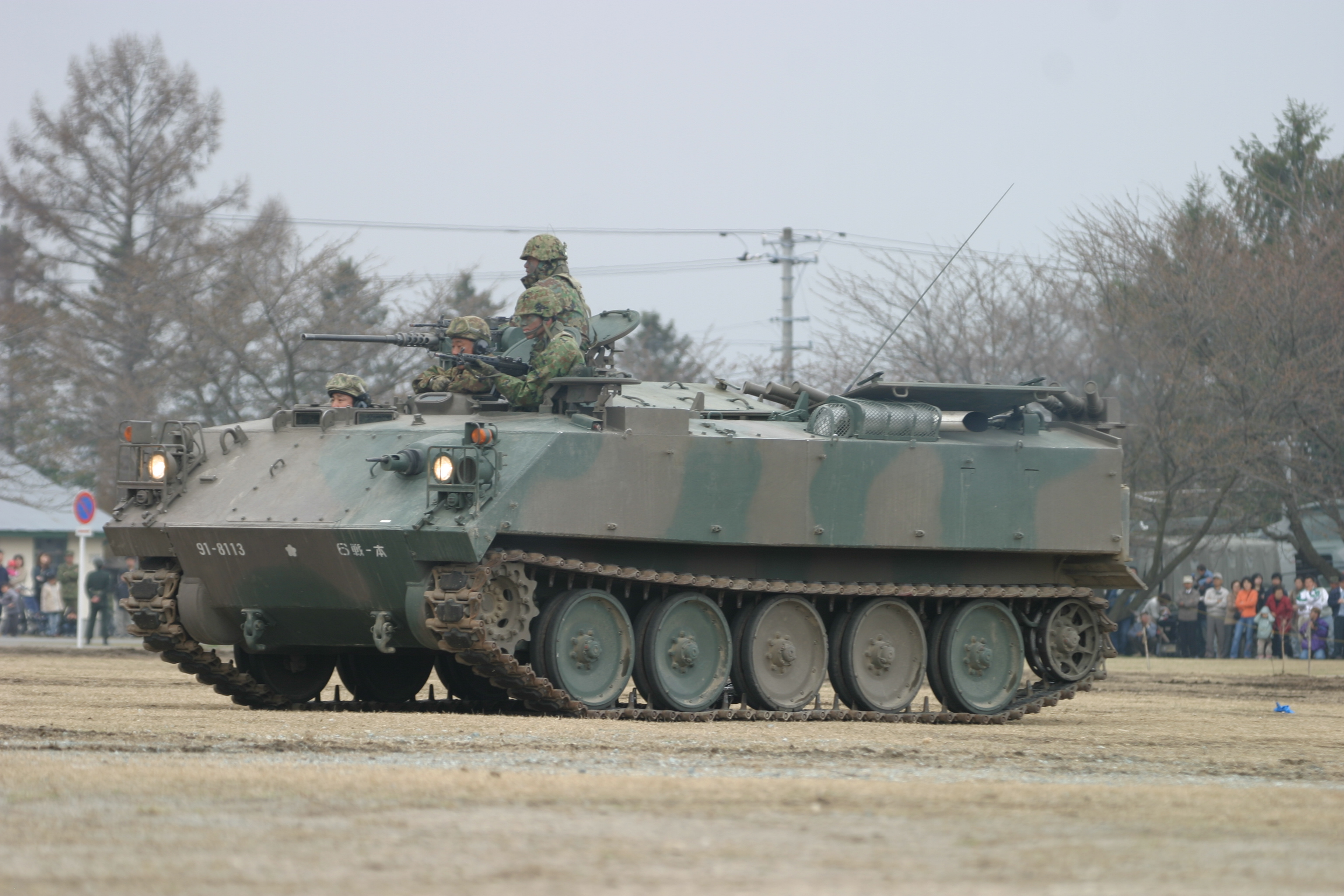 Subject: Type73 APC of the JGSDF displayed at JGSDF CAMP jinmachi Source: photo by EarlyBird, taken 2005/4/17